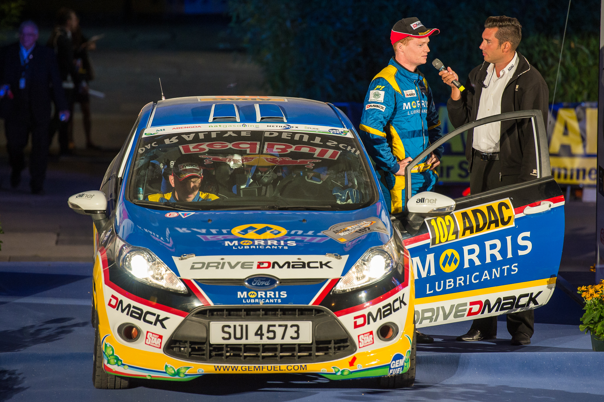 ADAC Rallye Deutschland 2014,Ceremonial Start,Craig Parry,FIA,FIA World Rally Championship,Ford Fiesta R2,Motorsport,Rally,Rallye,Showstart,Tom Cave,WRC,Zeremonienstart